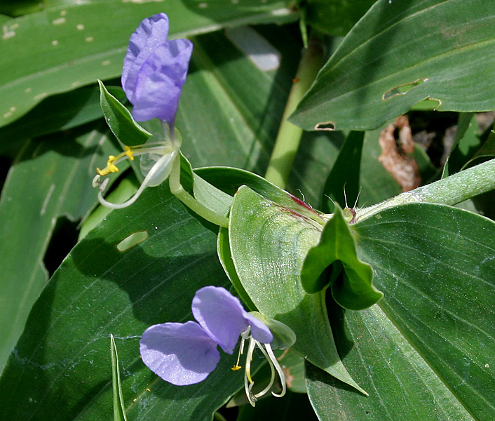 Spotted Dayflower Commelina maculata (Synonyms: Commelina obliqua var. viscida, Commelina paludosa var. viscida) at Pocharam lake, Andhra Pradesh, India.